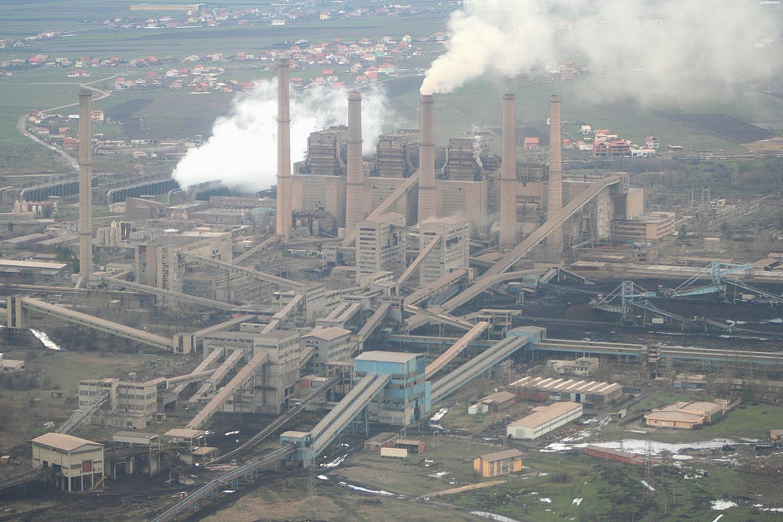 This is the Obilic lignite power plant which is the only source of electricity of the area.